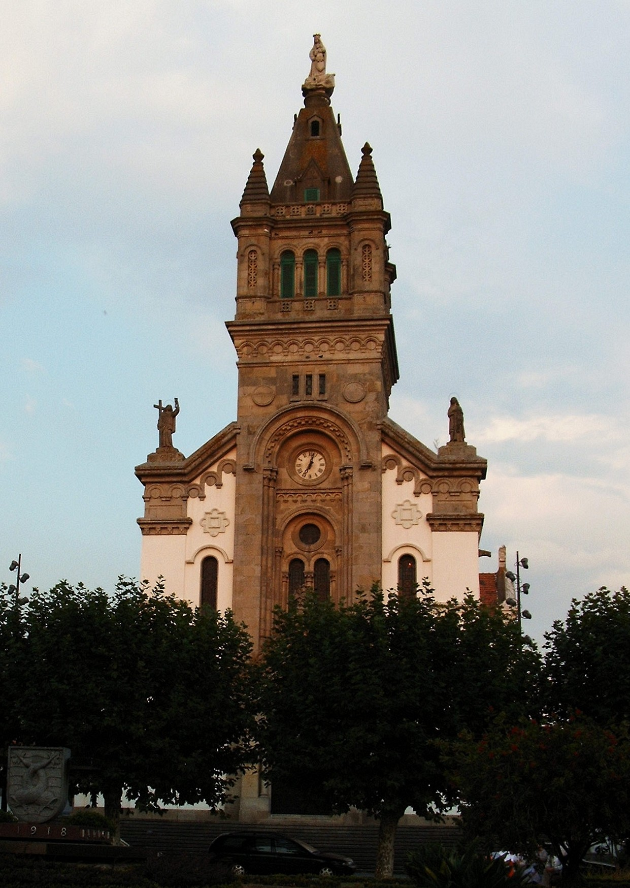 Igreja Matriz de Espinho